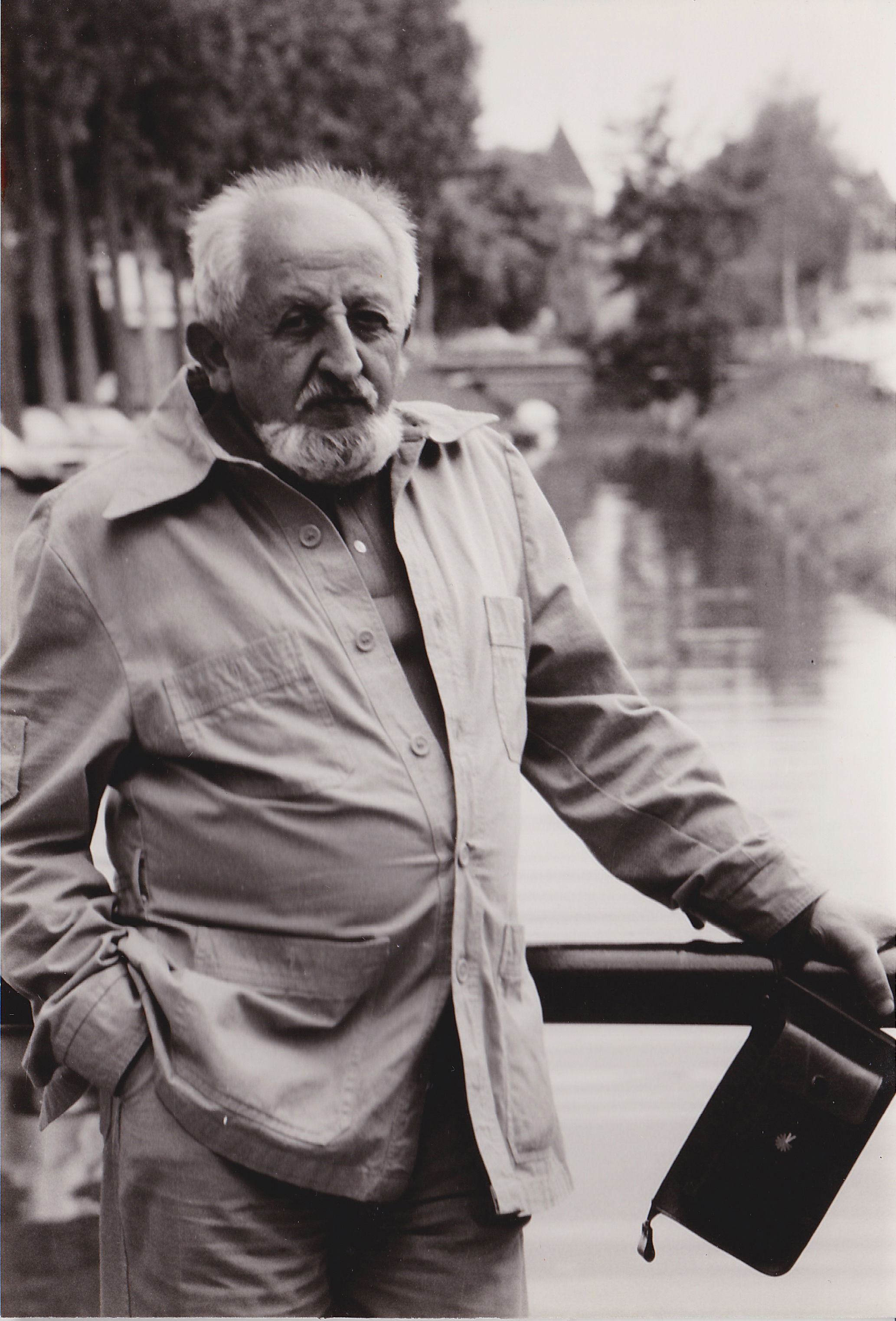 Ota Hromadko